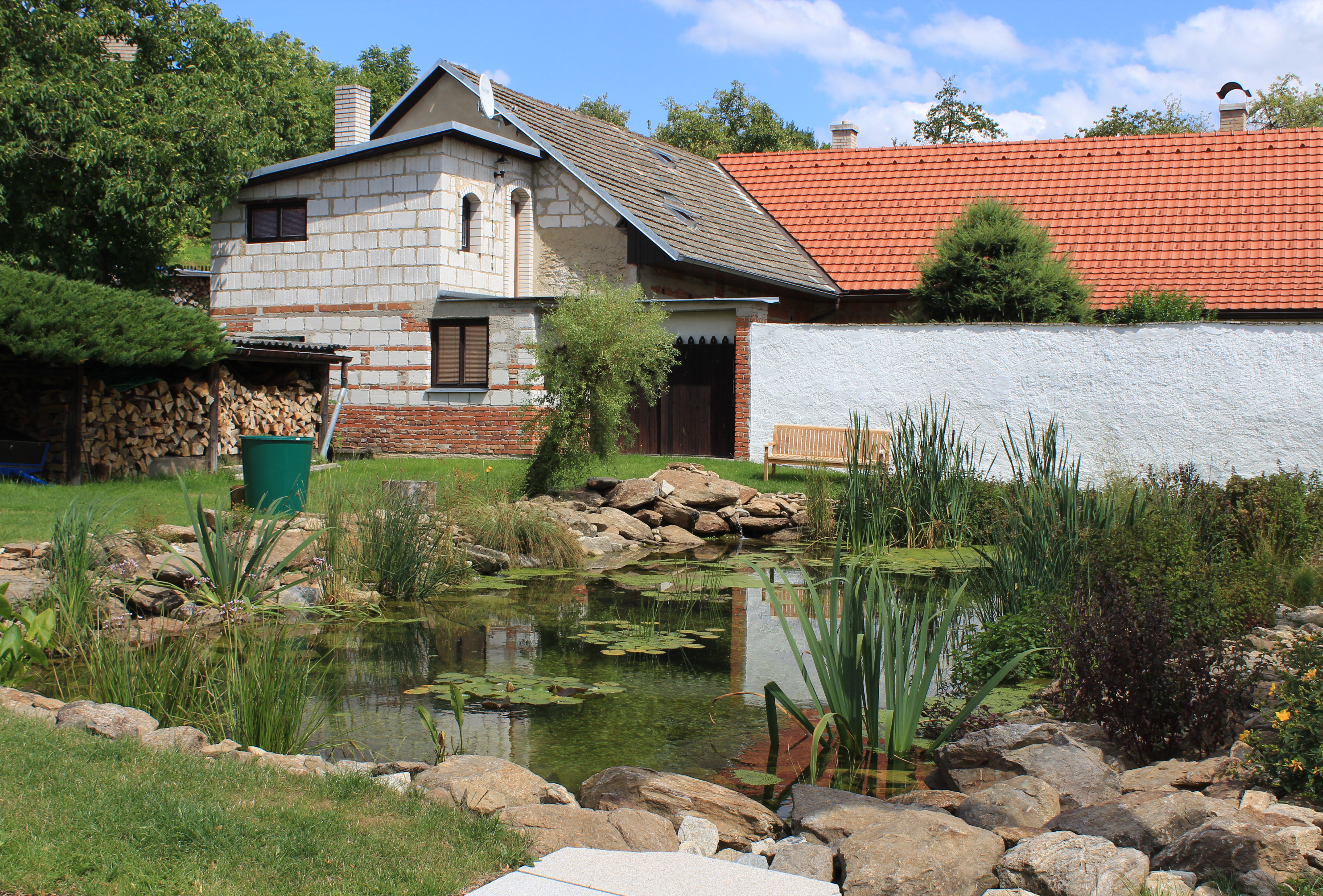 Small common pond in Vlasenice, part of Lhota-Vlasenice, Czech Republic.